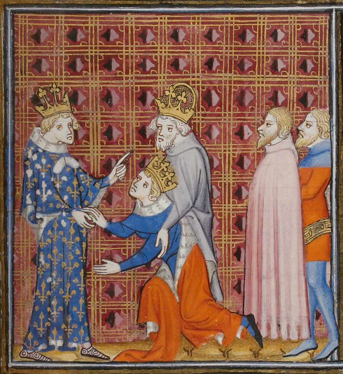 Wenceslaus IV, king of Bohemia, doing homage to King Charles V of France as Emperor Charles IV looks on